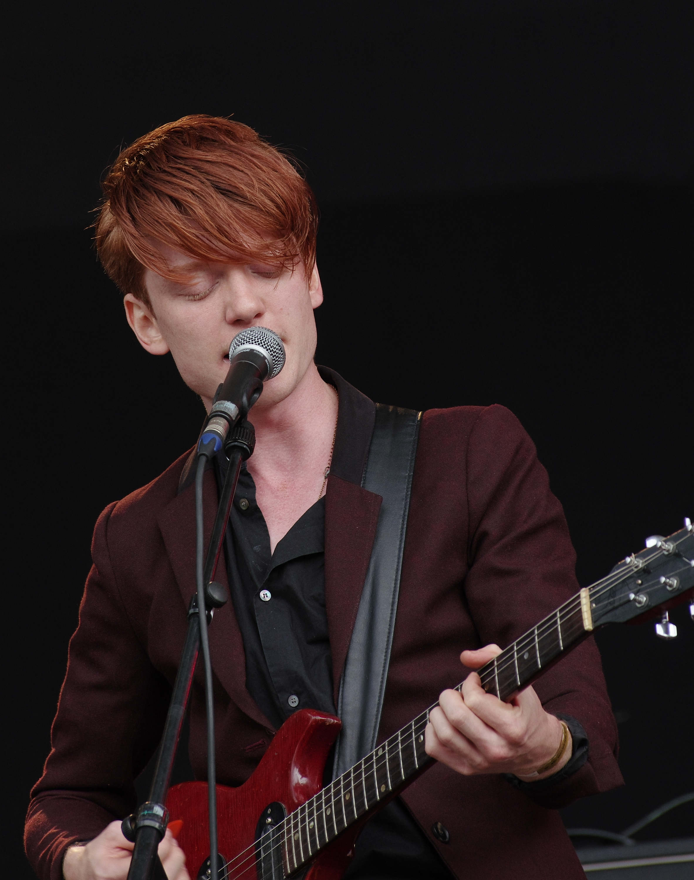 German group Trümmer at Haldern Pop 2013. Paul Pötsch (git, voc), Tammo Kasper (bass), Maximilian Fenski (drums)